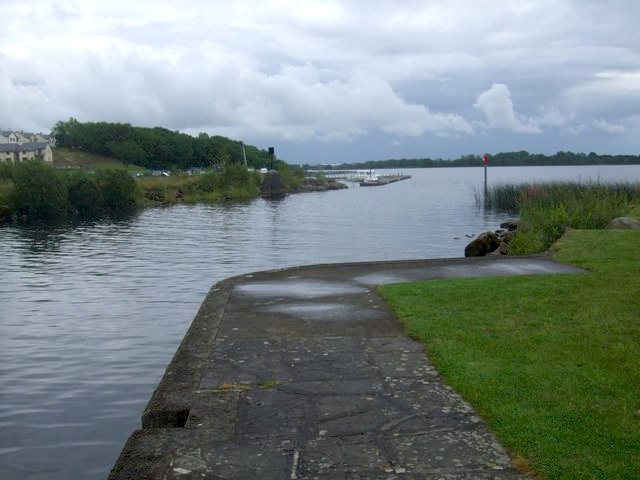 Harbour entrance at Dromod